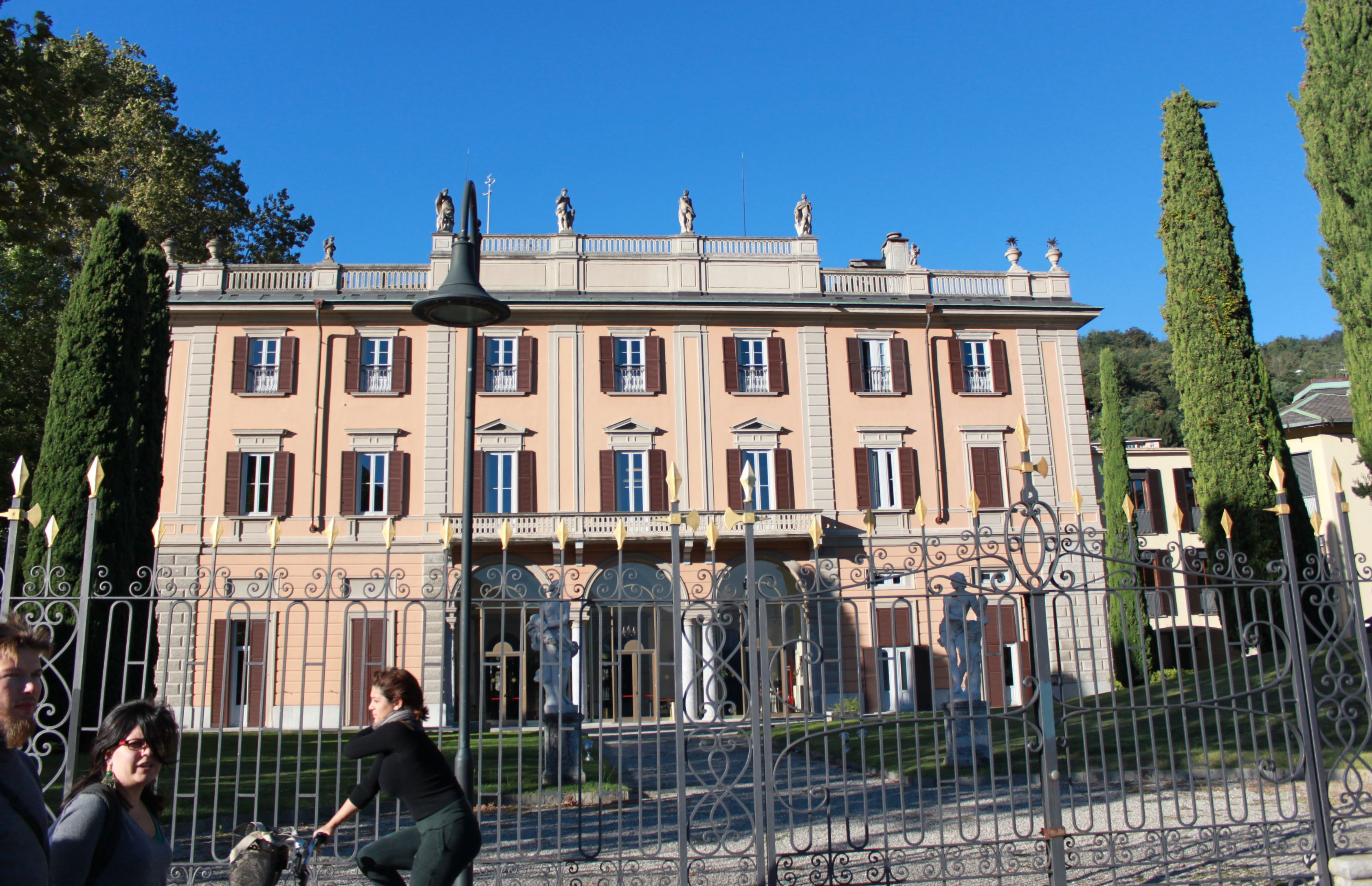 Como, Italy